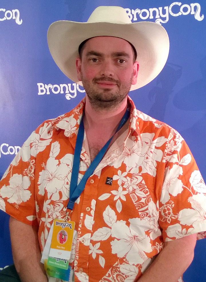 Image taken at Bronycon 2014 of actor Peter New.